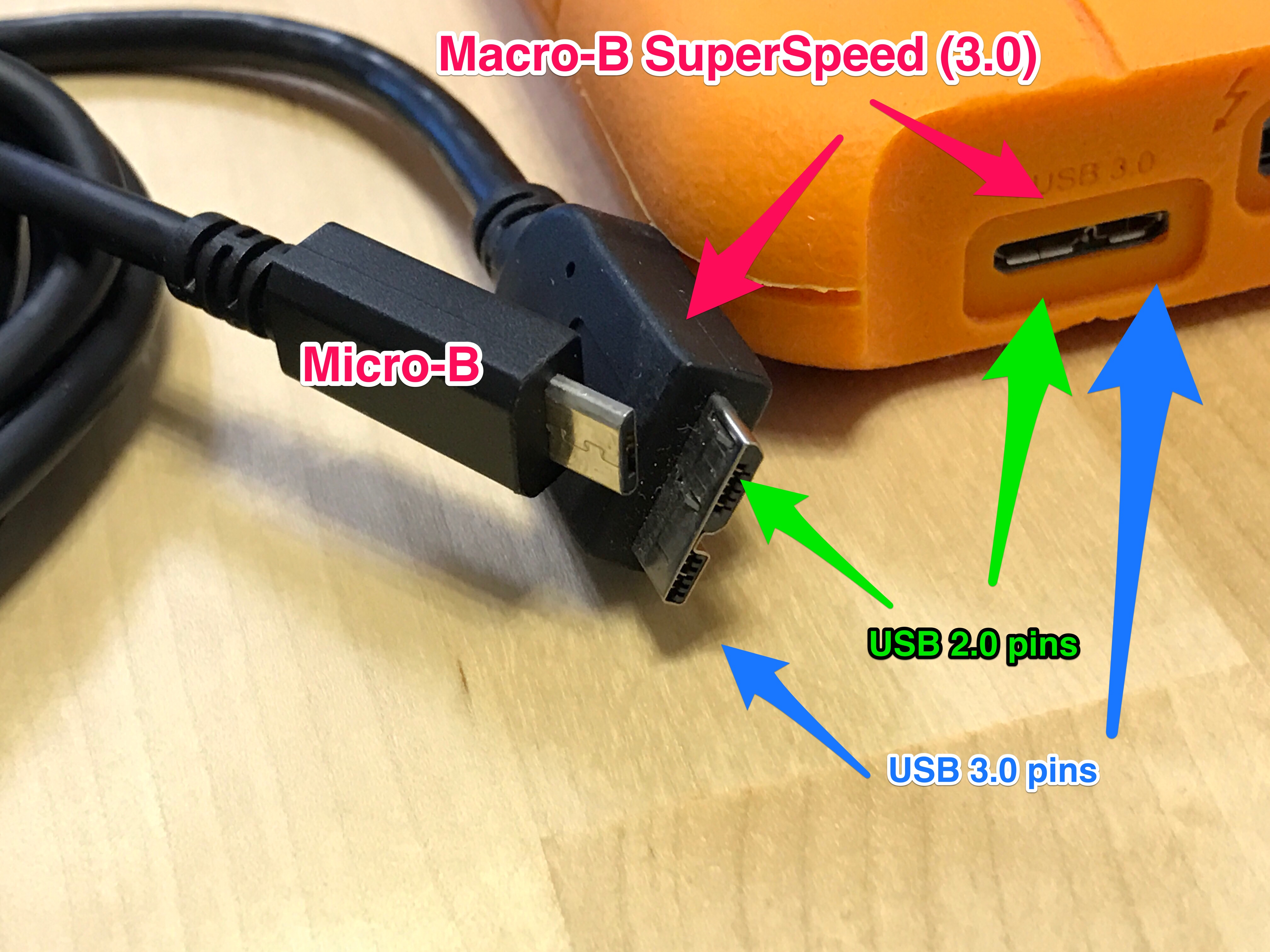 USB Micro-B USB 2.0 vs USB Micro-B SuperSpeed (USB 3.0)